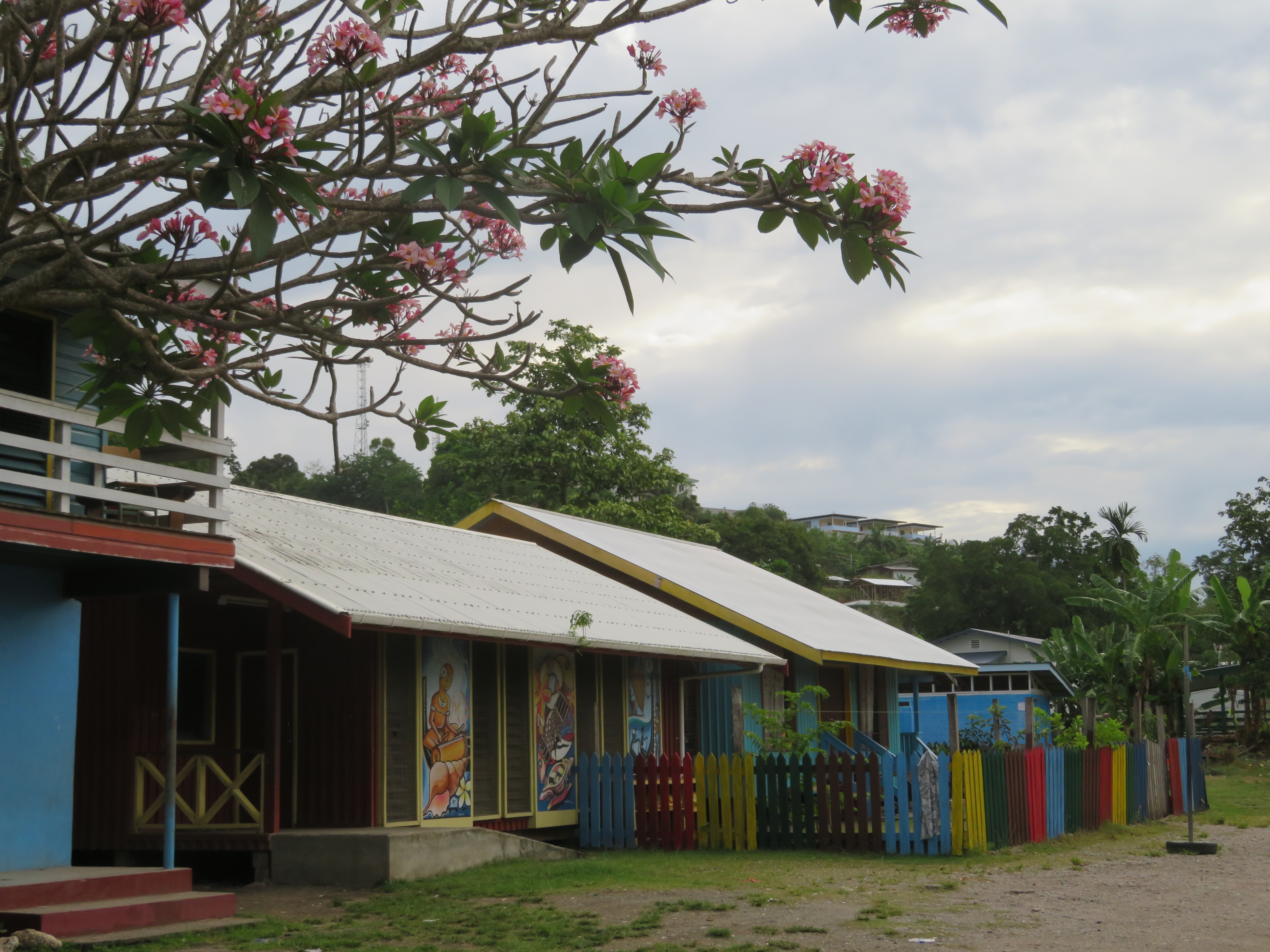 Kindergarden in Honiara, Solomon Islands